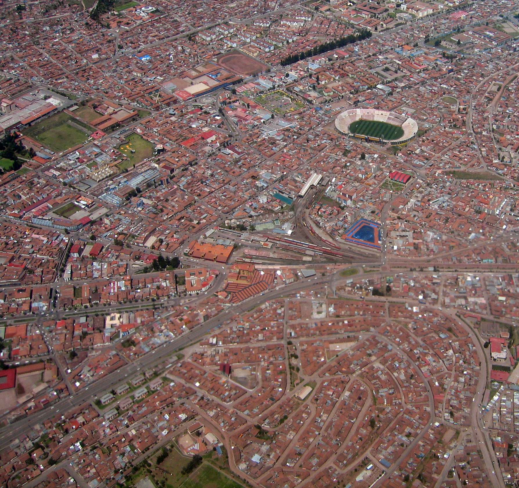 Aerial photo of Cuzco with Estadio Garcilaso.